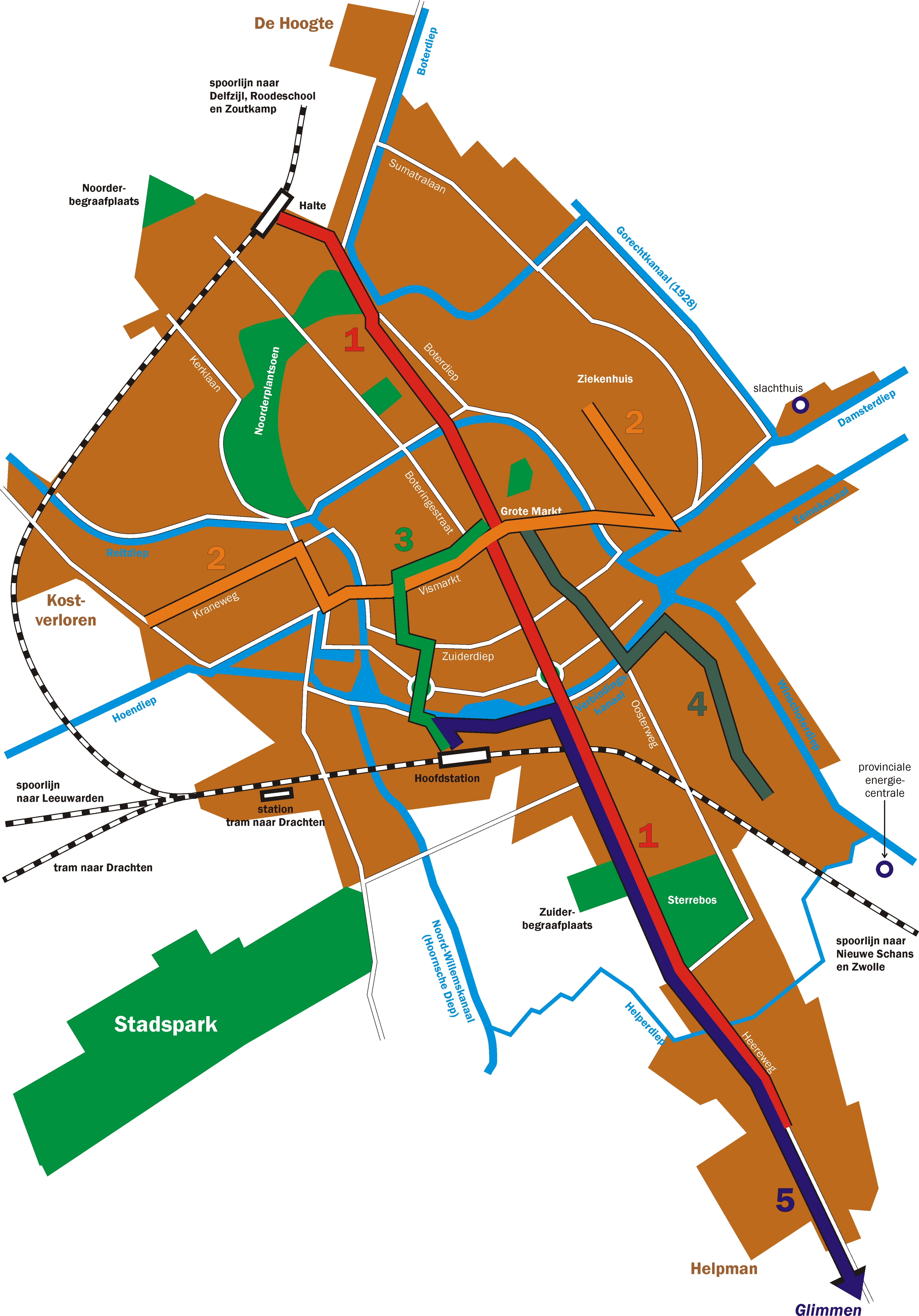 Map of trams in Groningen, 1925. Background separately available as File:Groningen_1925.png; information on lines from [1] and the text version at [2].